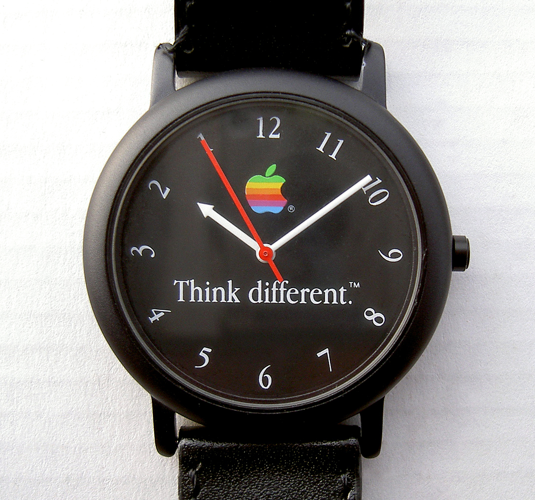 Apple Think Different watch